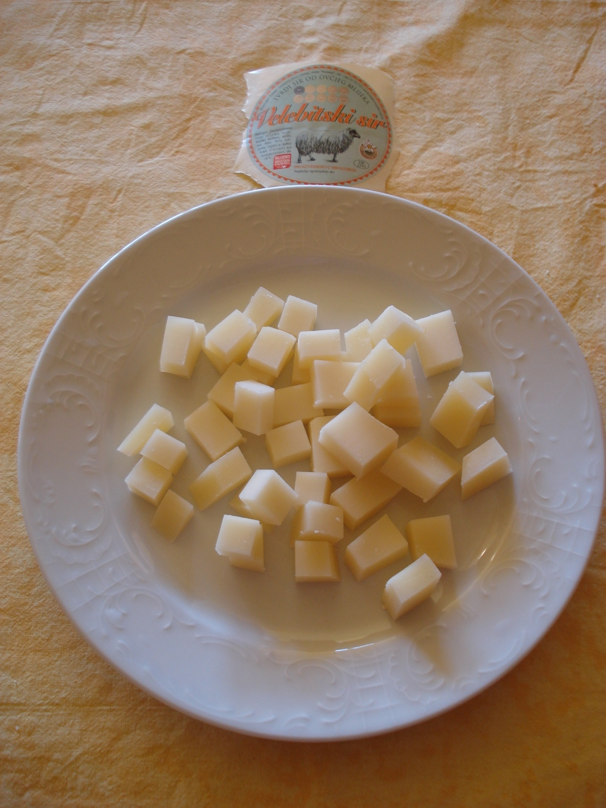 Velebit cheese - hard cheese made from sheep's milk, originating from Velebit mountain, produced in Otočac (Lika-Senj County, Croatia).